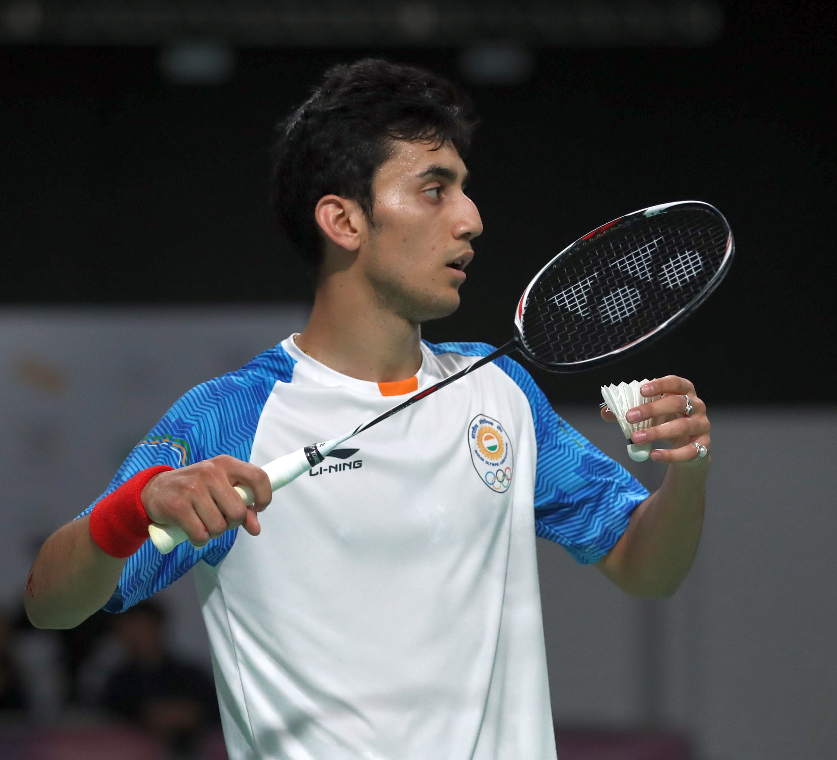 Final at the Boys Singles Badminton competition: Li Shifeng (China) vs. Lakshya Sen (India)